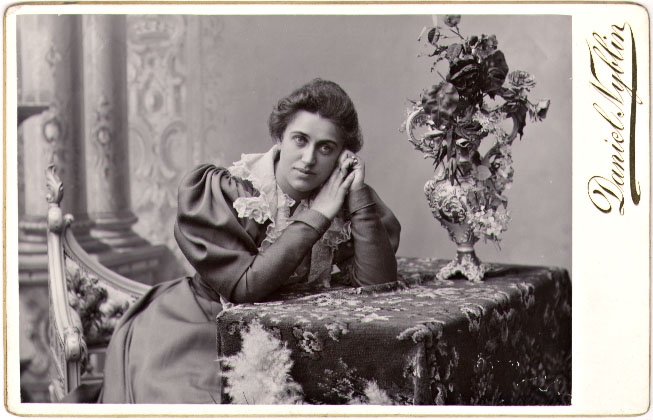 Finnish singer Aina Mannerheim